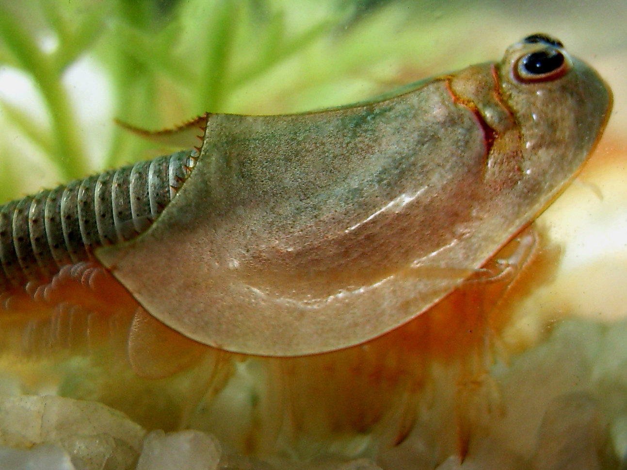 Triops longicaudatus. This relic from the Devonian period has 140 legs, breaths through its feet, likes carrots, and its offspring can survive 20 years without water (the weather was a bit unstable back then).